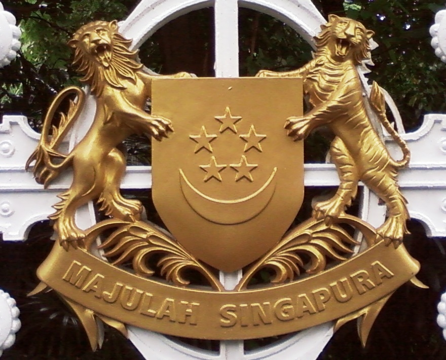 A golden version of the National Coat of Arms of Singapore on the main gate of the Istana.